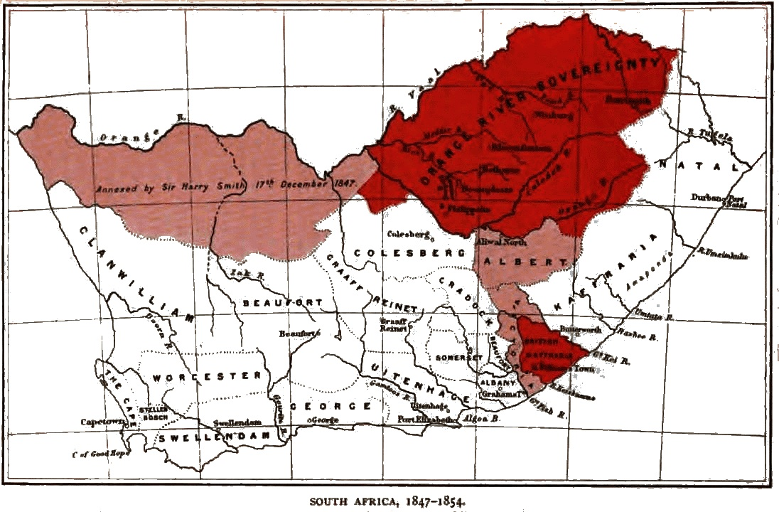 SOUTH AFRICA, 1847-1854. (The coloured districts were annexed by Sir Harry Smith, those only lightly coloured becoming part of Cape Colony.)